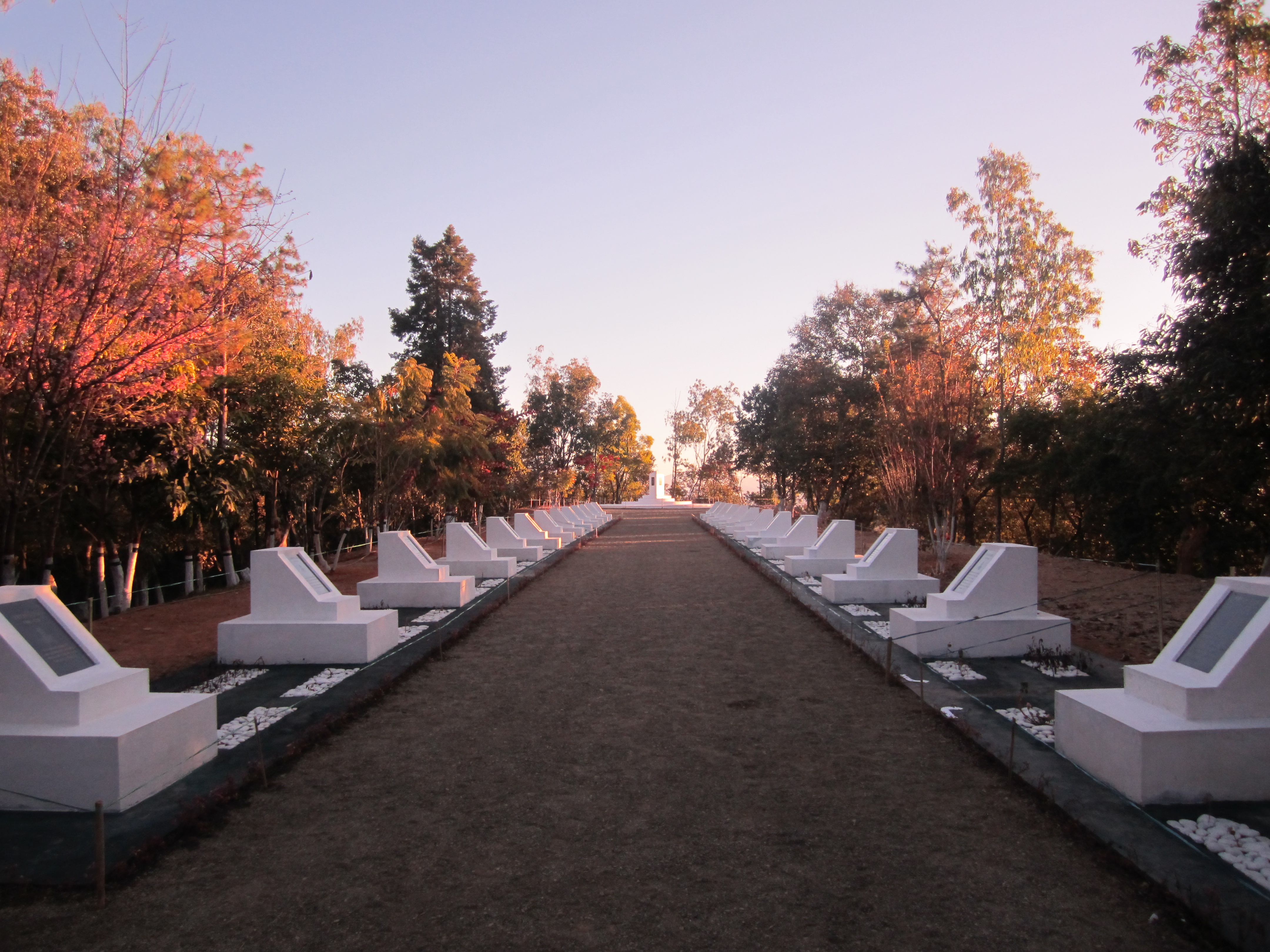 This is the photograph of Mizo Hlakungpui Mual which means Mizo Poets' Square. Source=Mizo Hlakungpui Mual Date=2011 Author=Mapuia Hnamte Photographer= Dr.Rengpui